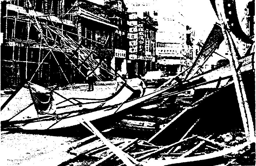 damage in Taiwan after Typhoon Billie